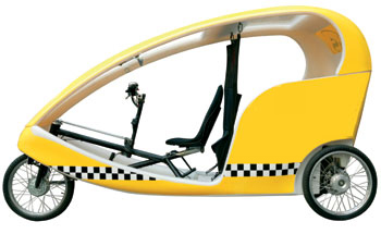 This image shows a pedicab (rickshaw) made by Veloform. The model is "CityCruiser I" The author is The photo was made 2003. Please for further details.